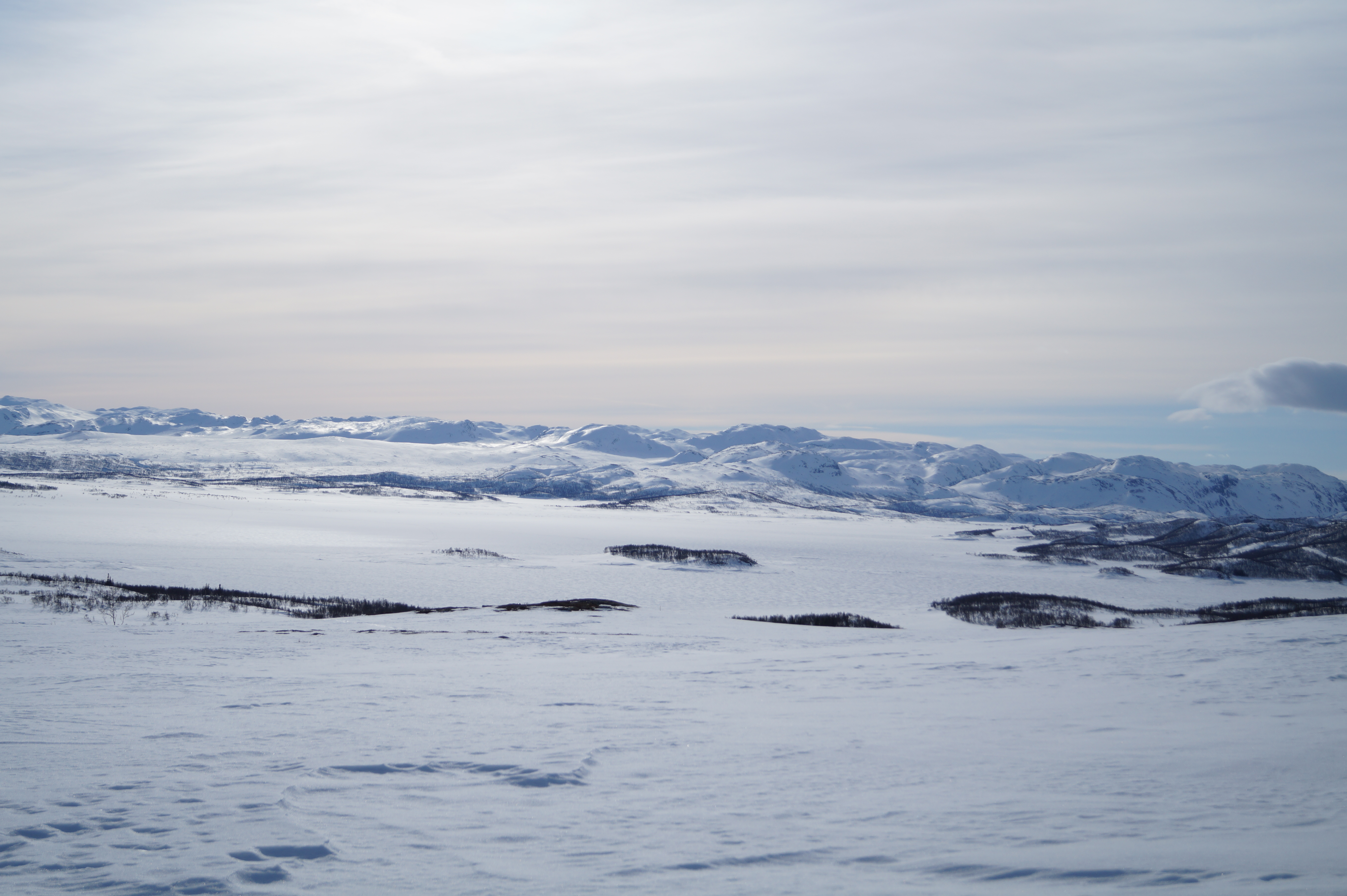 Telemark